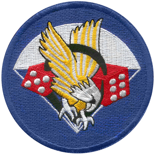 506th Infantry parachute Regiment (United States)